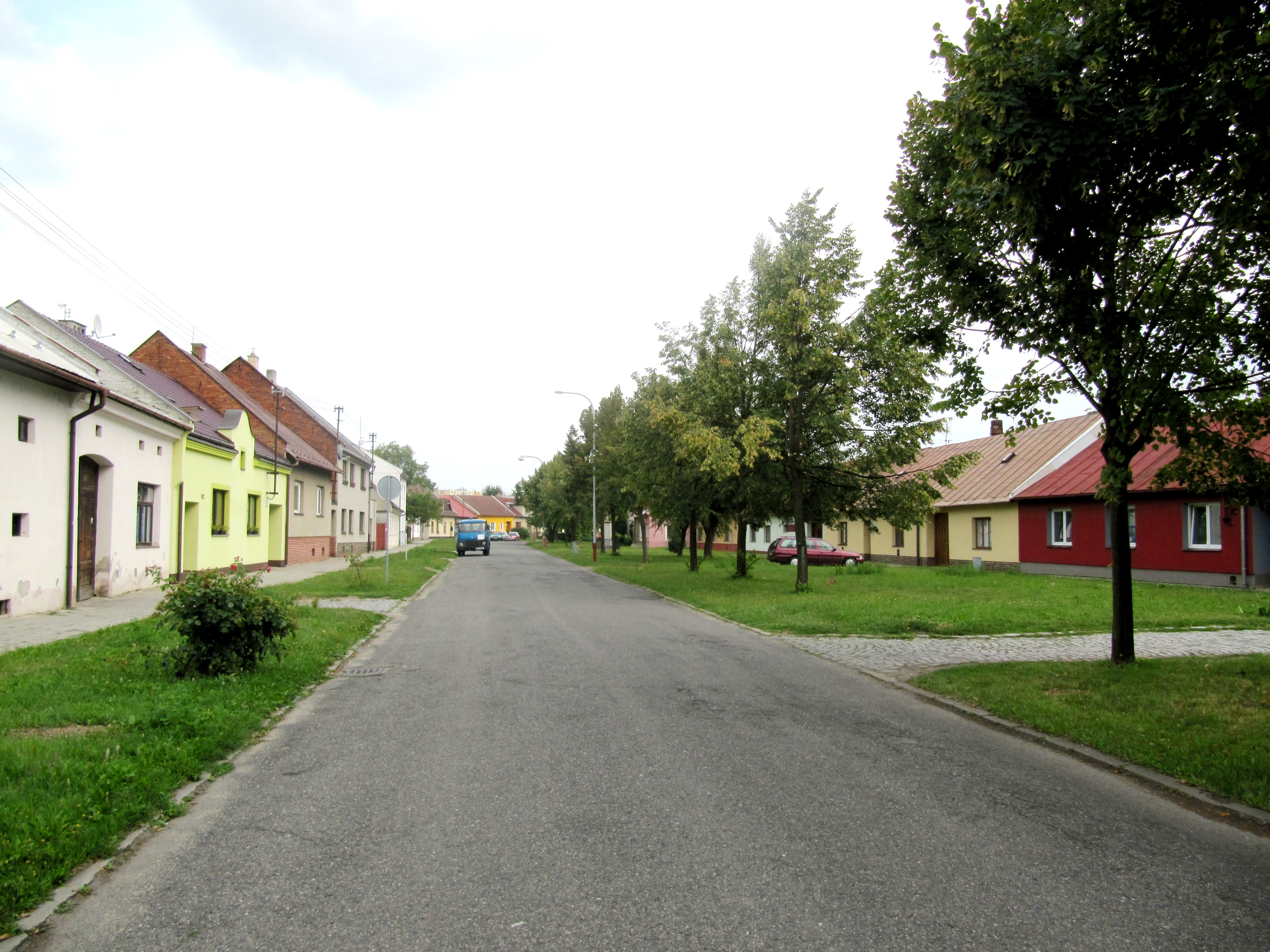 Holešov, Kroměříž District, Czechia.